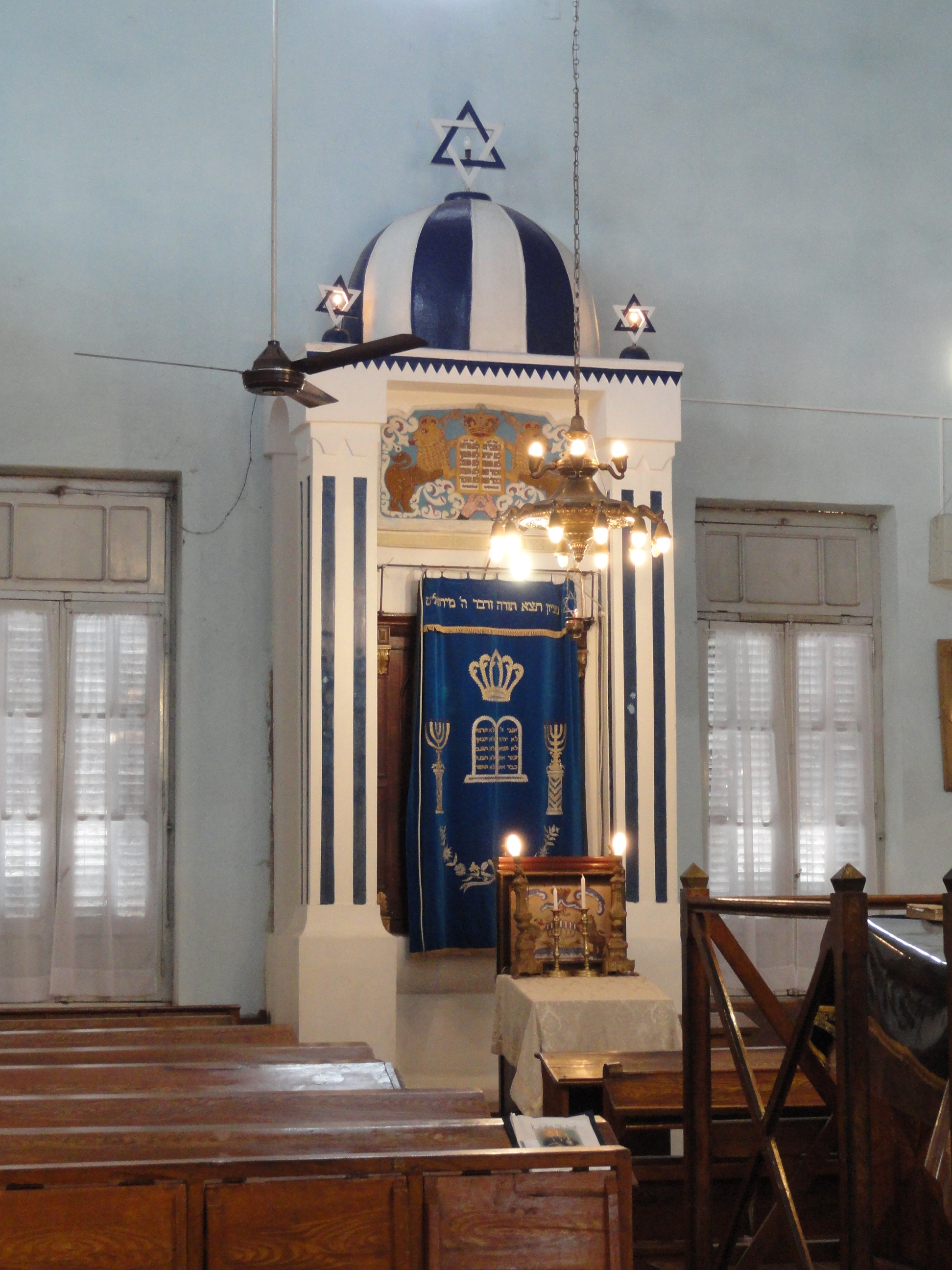 Synagogue Baron Hirsch in Moisés Ville (Argentina) - Torah Ark